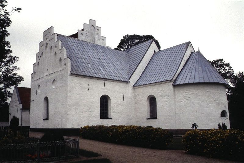 Sanderum Kirke from apr.1100